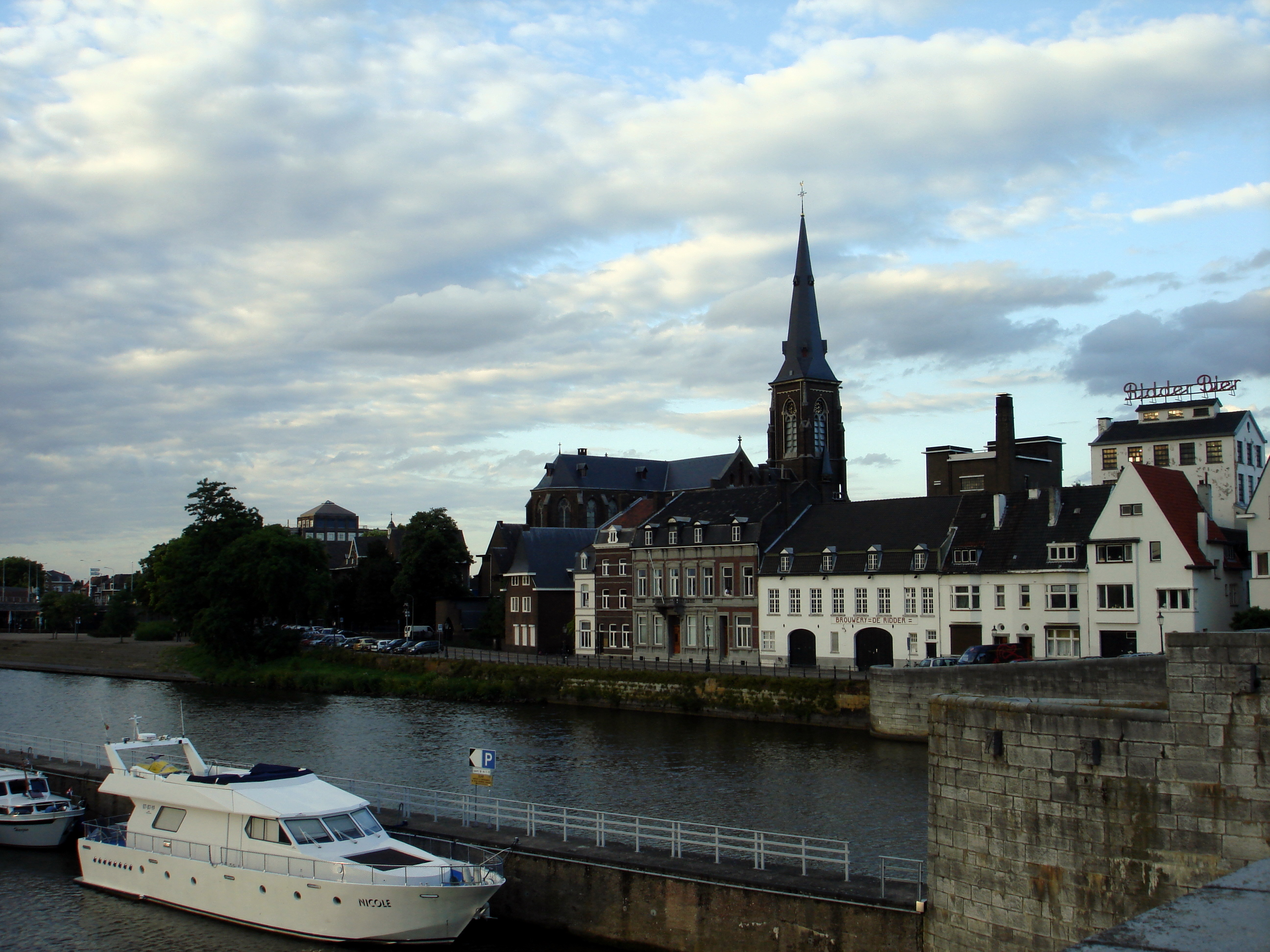 River Maas, Maastricht, Netherlands